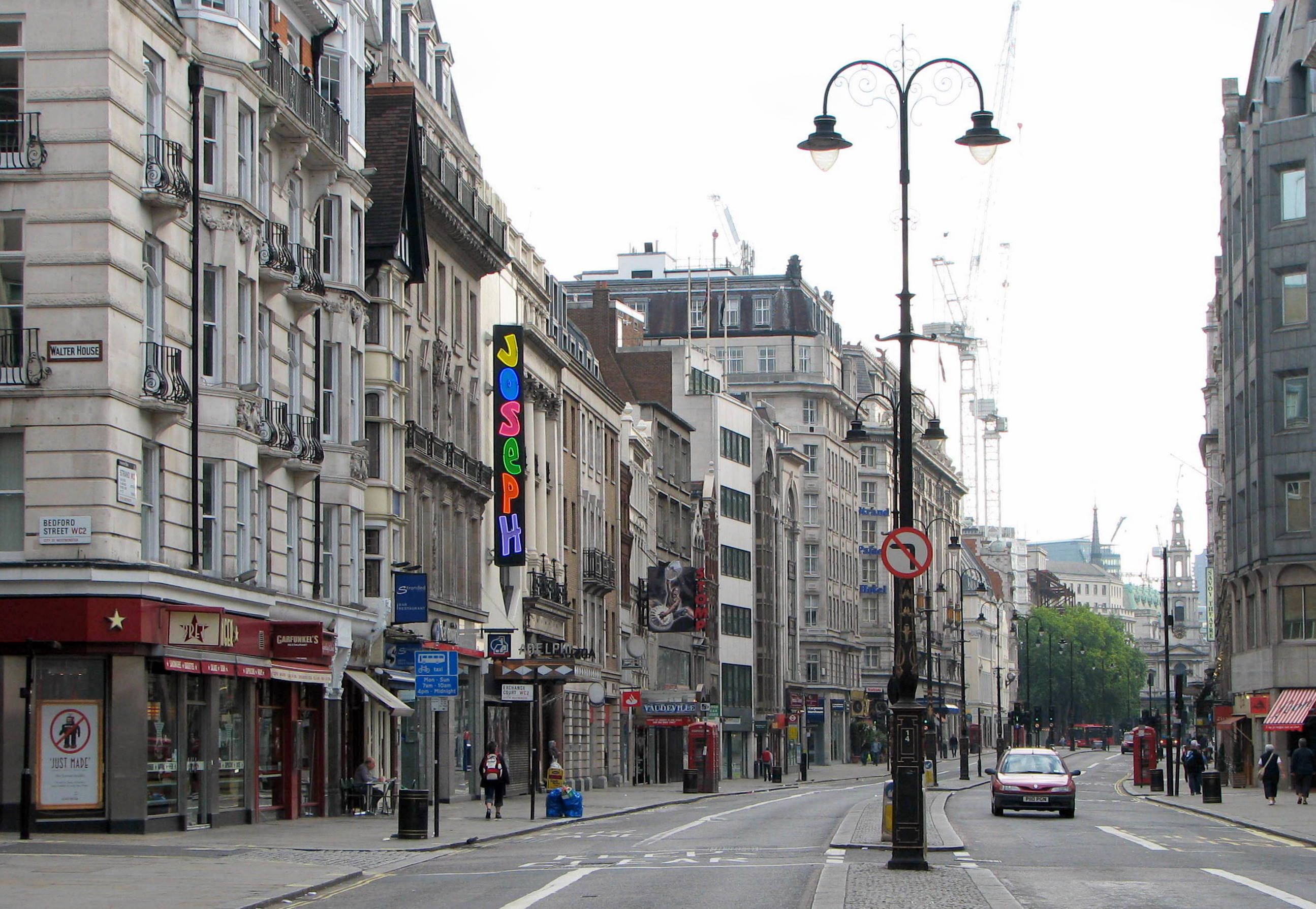 The Strand, London, England